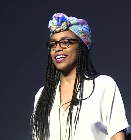 Presentation by Heben Nigatu from the 2016 XOXO festival.